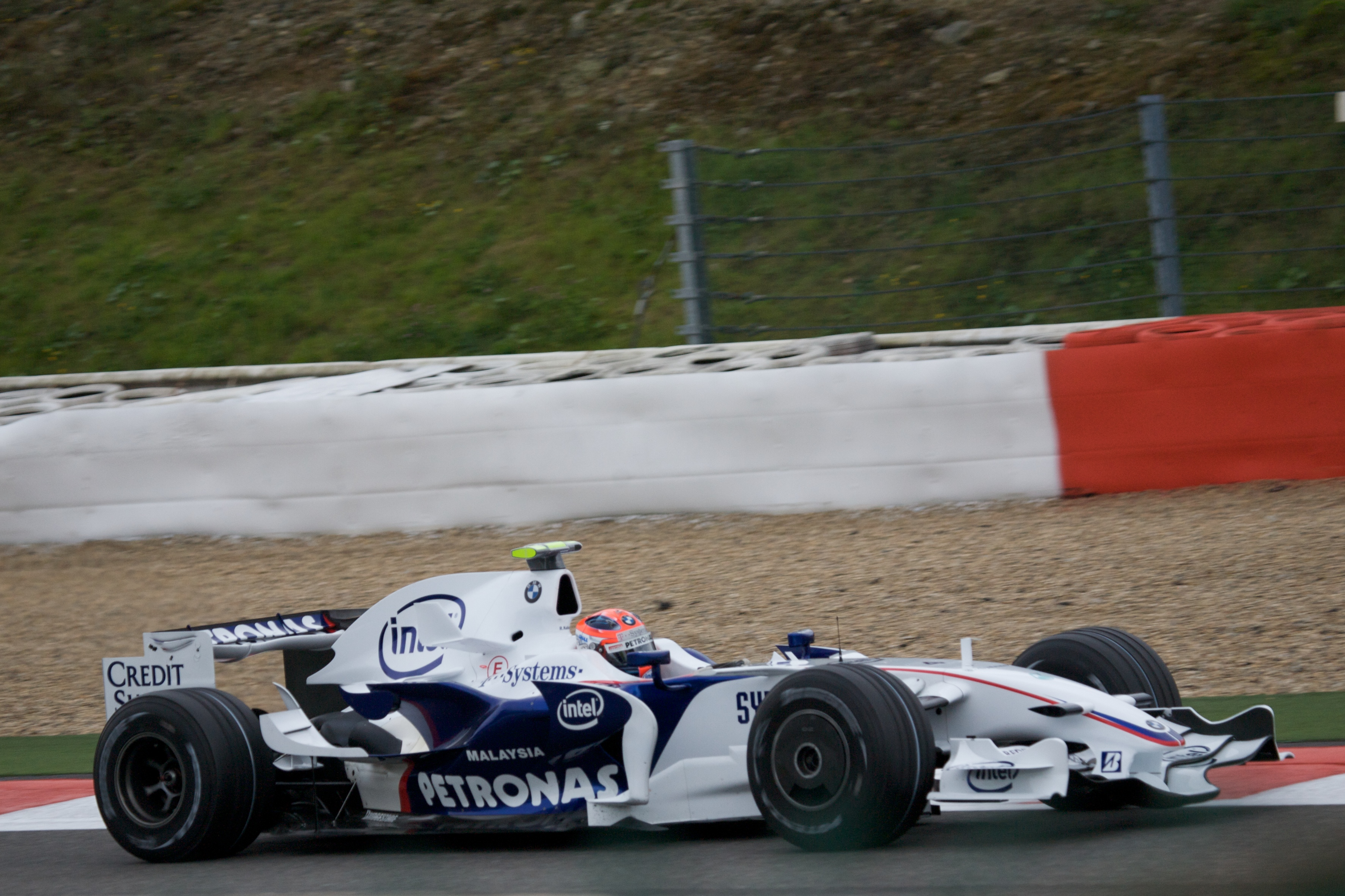 Robert Kubica driving for BMW Sauber at the 2008 Belgian Grand Prix.